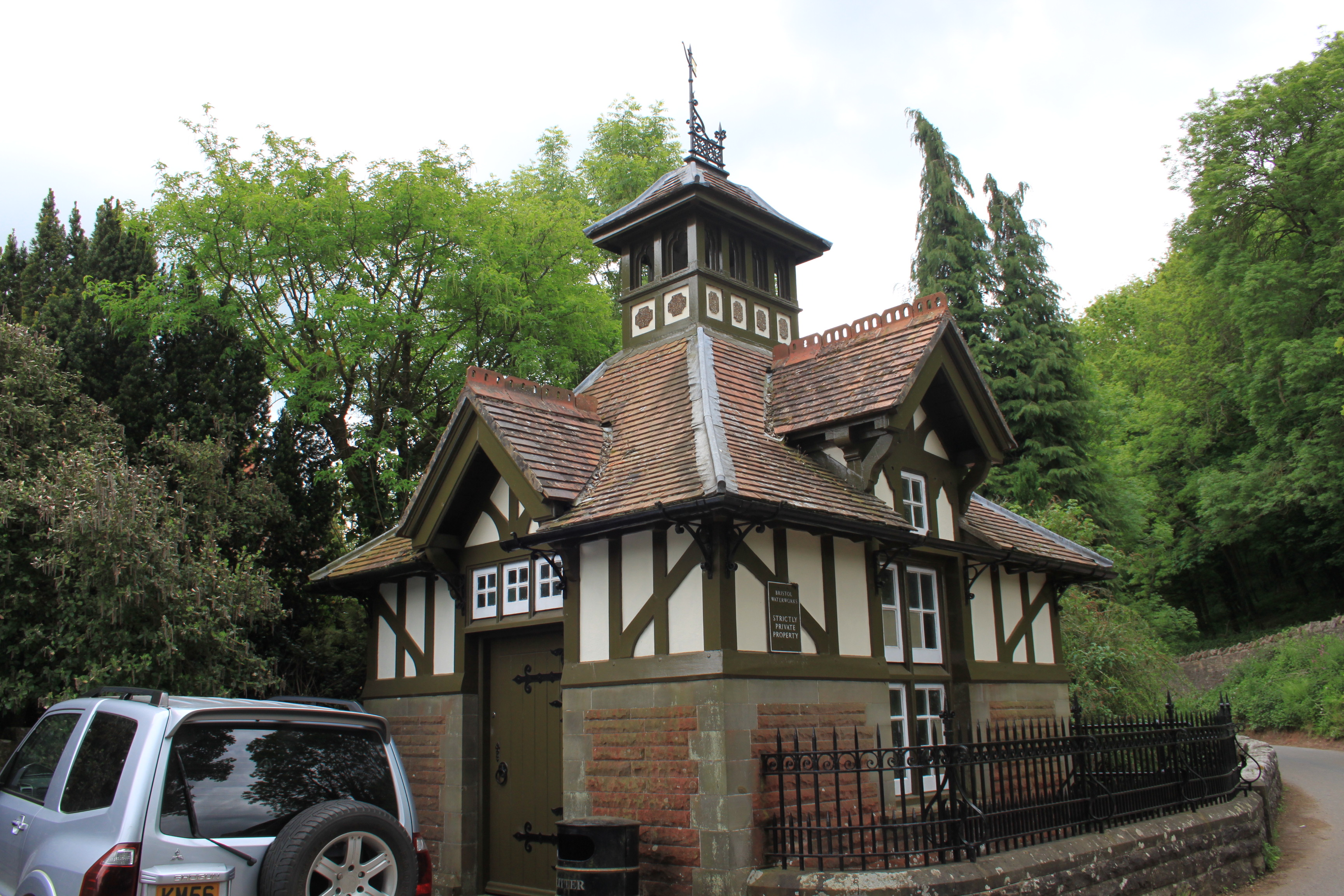 Guage house on the brook in Rickford, Somerset